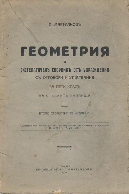 Geometry Textbook by Petar Martulkov 1930